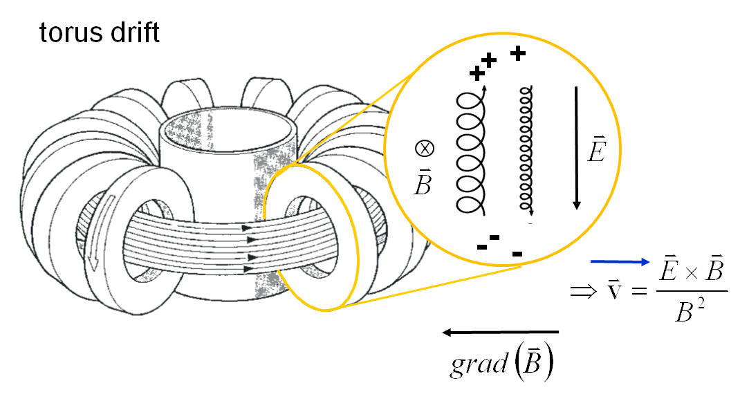 Schematic description of the torus drift: Particles in toroidal magnetic plasma confinement devices as they are favoured for nuclear fusion experiments drift radially outward if a purely toroidal magnetic field is used.